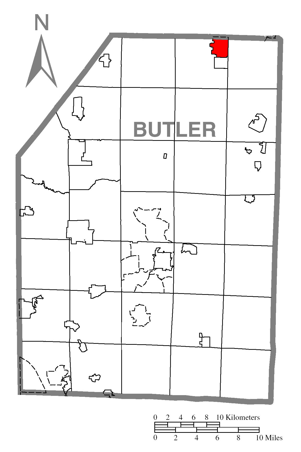 A map of Butler County showing Cherry Valley, Pennsylvania (alternate) highlighted on the map.